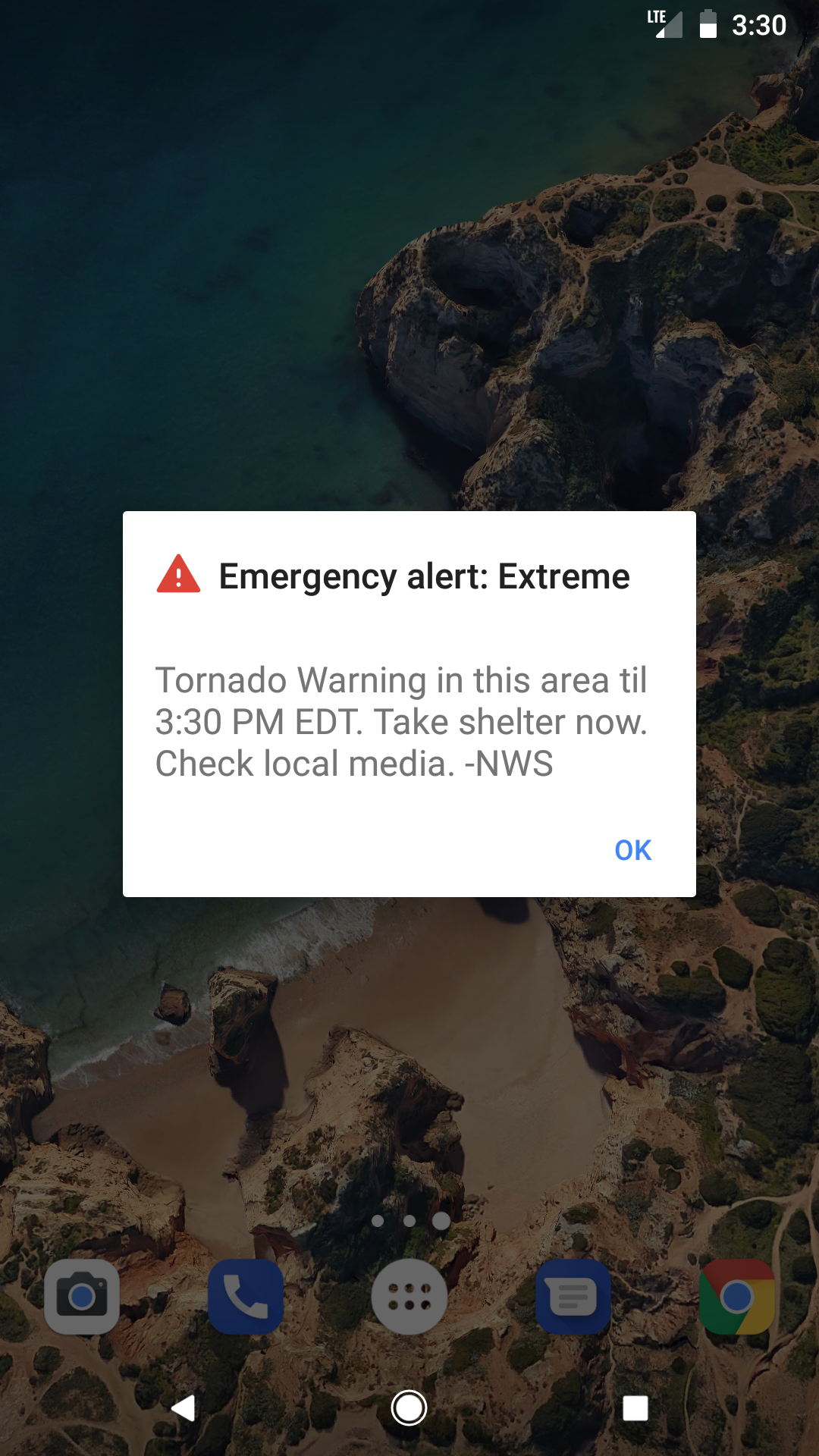 An actual Wireless Emergency Alert message indicating a Tornado Warning for the covered area.